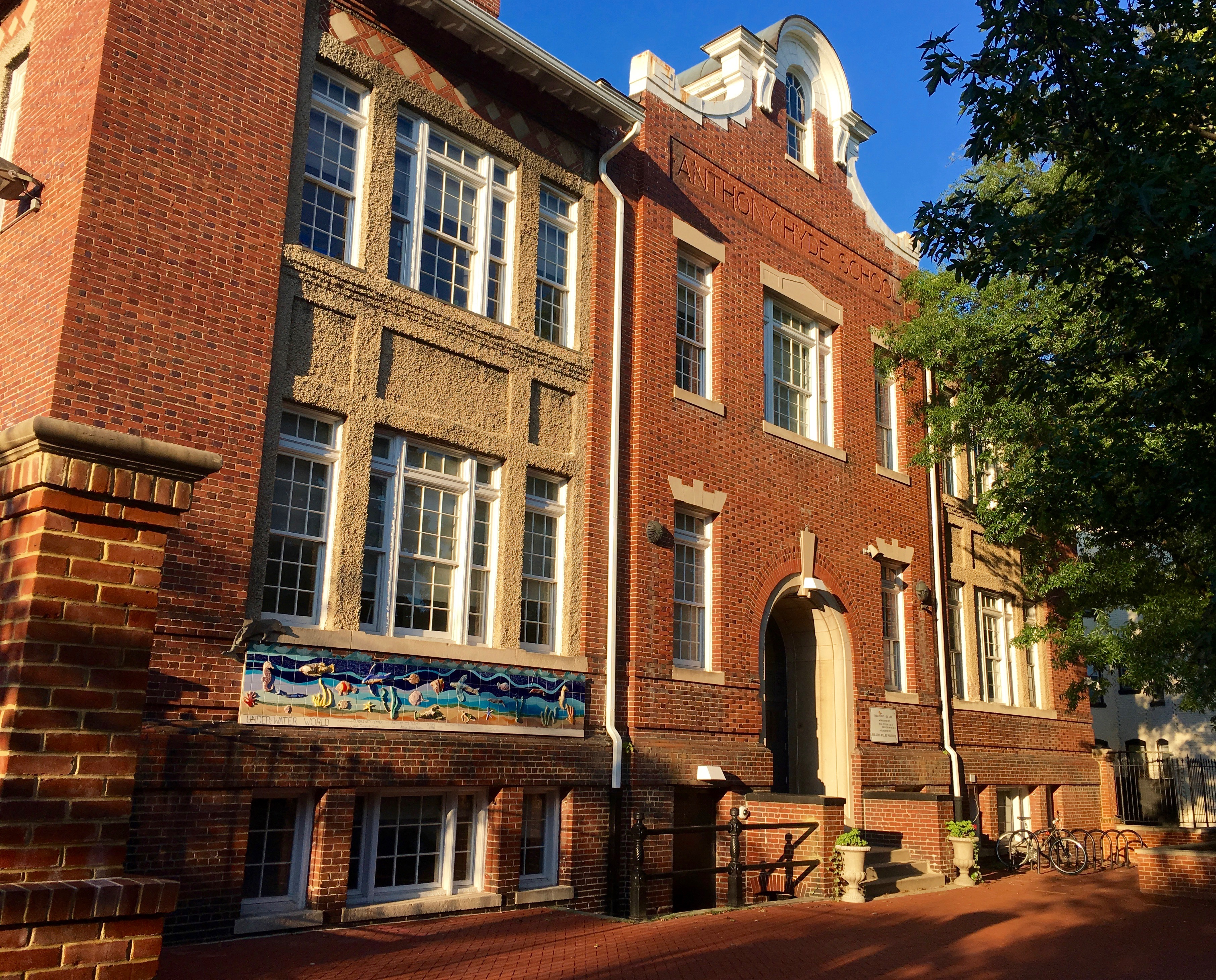 Hyde-Addison Elementary School, Georgetown, Washington, DC